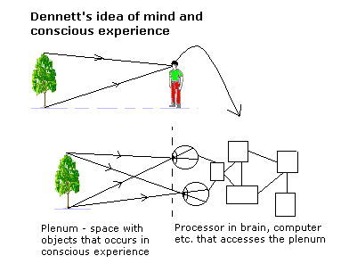 Dennets idea of mind and conscious experience